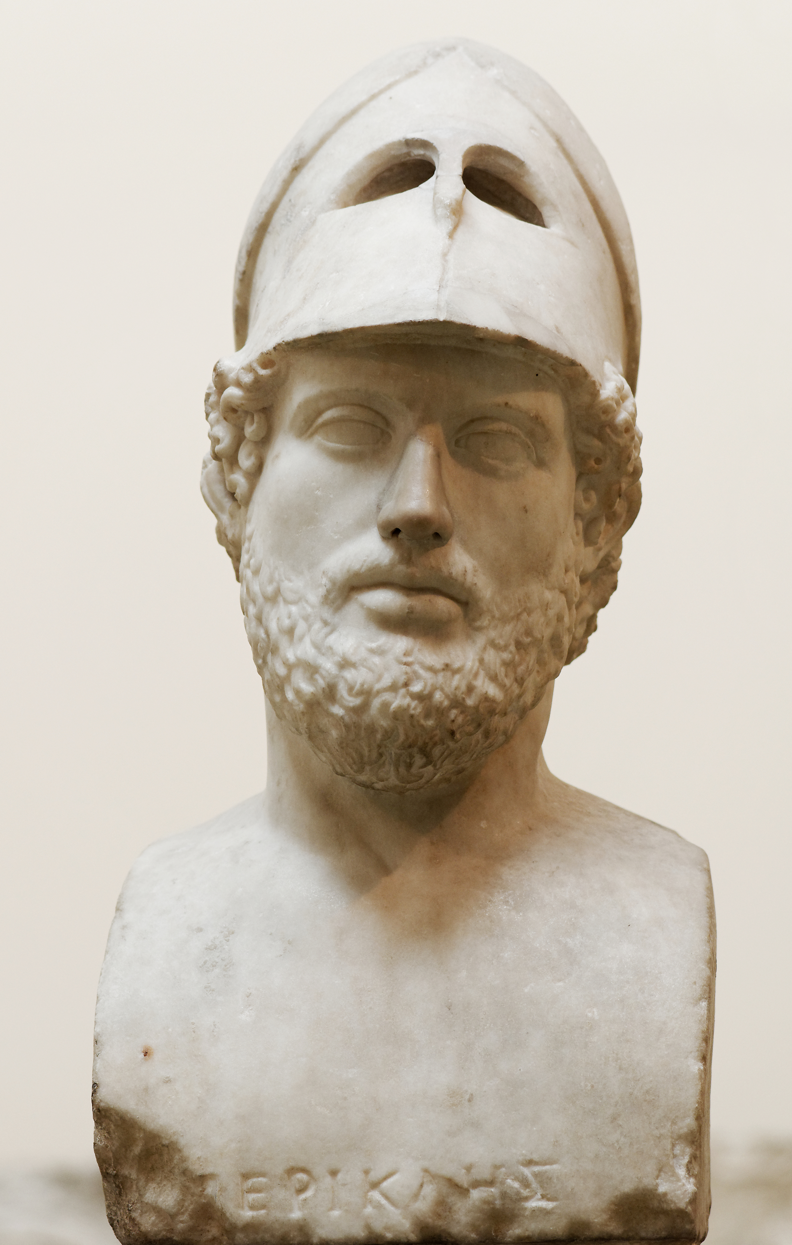 Idealised bust of Pericles. Roman copy of the 2nd century CE after a Greek original of the Late Classical era.